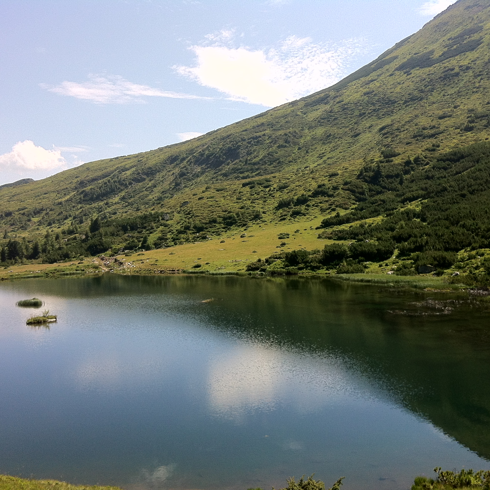 Picture taken in the summer of 2014.